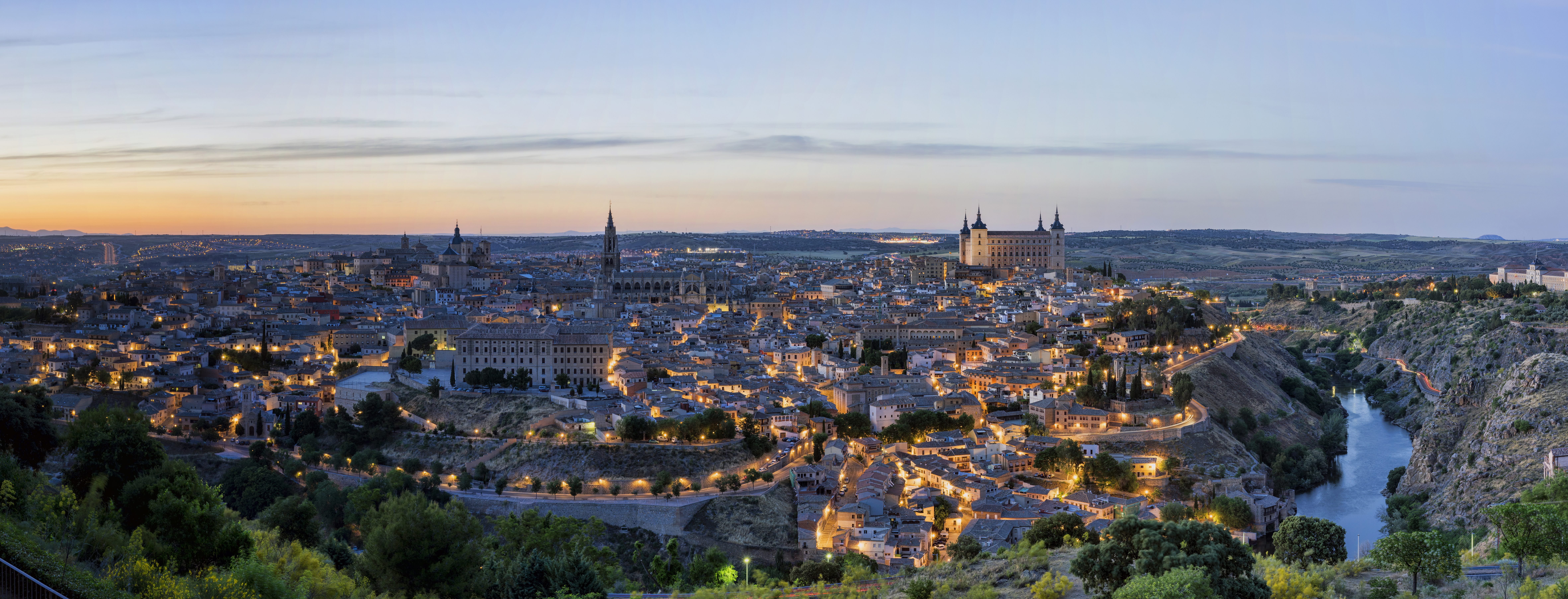 panorama of toledo spain 2014 sunset parador hotel